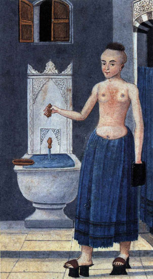 Masseur at the baths, scrubber with massage mitt